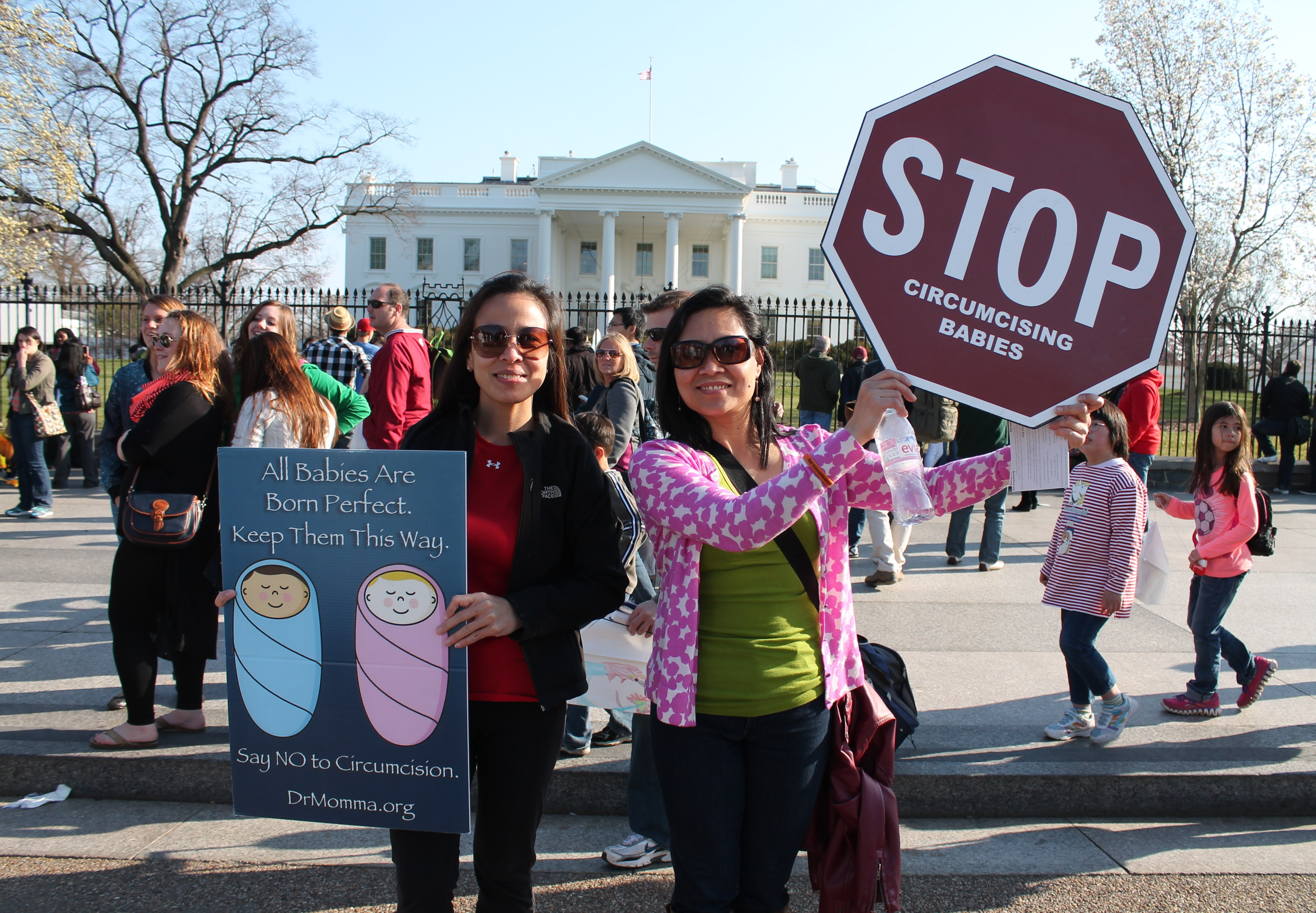 STOP INFANT MALE CIRCUMCISION Protest in front of the White House at 1600 Pennsylvania Avenue, NW, Washington DC on Saturday afternoon, 30 March 2013 by Elvert Barnes PROTEST PHOTOGRAPHY Visit STOP INFANT CIRCUMCISION website at Visit Elvert Barnes PROTEST PHOTOGRAPHY docu-project at